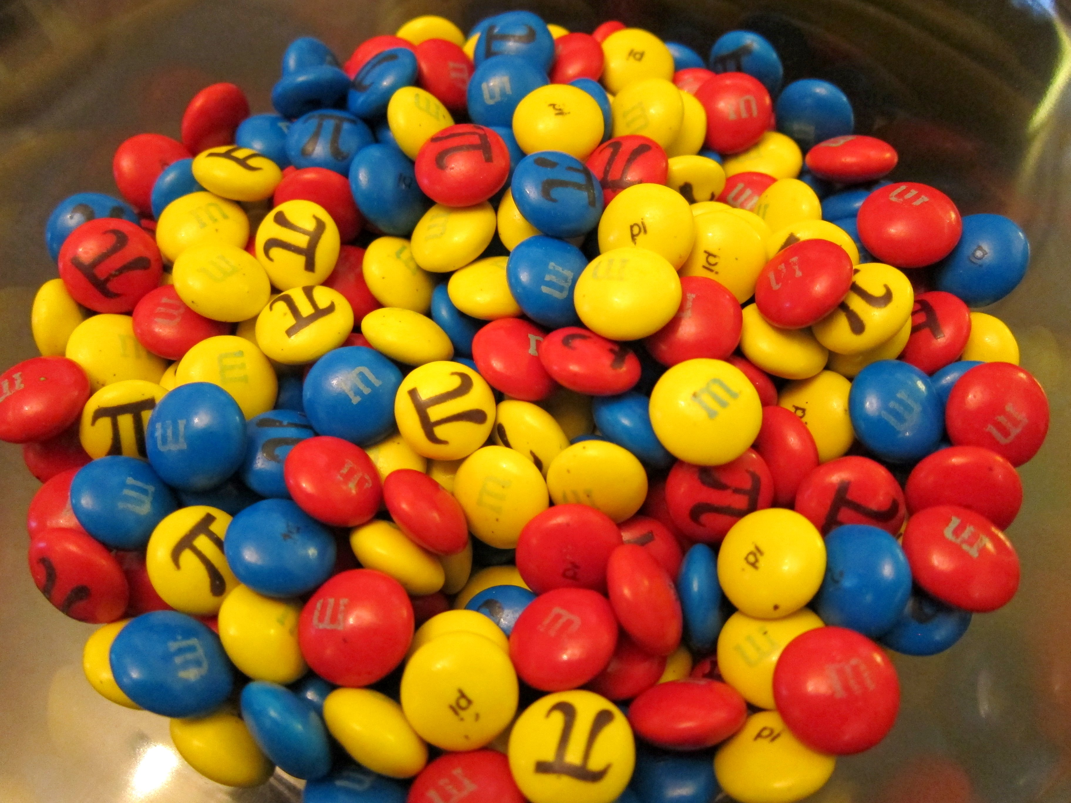 How better to celebrate pi day than with pi M&Ms?